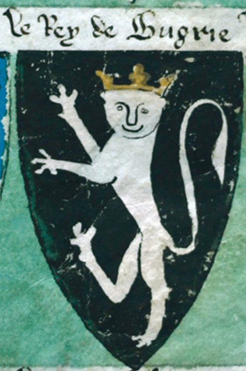 Coat of arms of the King of Bulgaria, Lord Marshall's Coat of Arms.